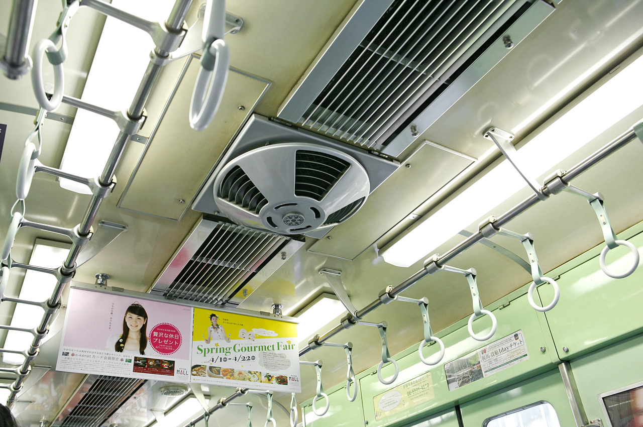 Interior of Keihan 2600 Series EMU